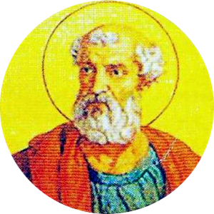 Portrait of Pope Pius I in the Basilica of Saint Paul Outside the Walls, Rome